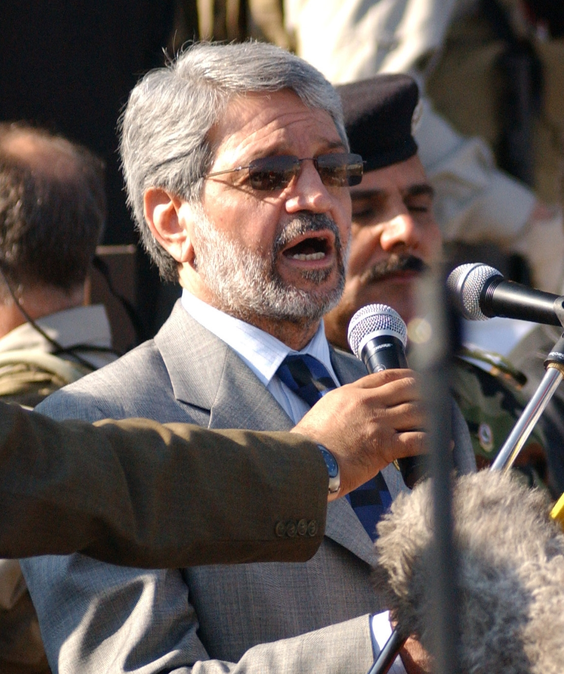 Cropped photo of Baqr Jabr Al-Zubeidi, Iraqi Minister of the Interior showing his support to Iraqi Police officers chanting their support during a graduation ceremony on Iraqi Police Day on 11 Jan. the MOI was in charge of all of the non-military civil protective forces working to re-establish a stable government in Iraq.